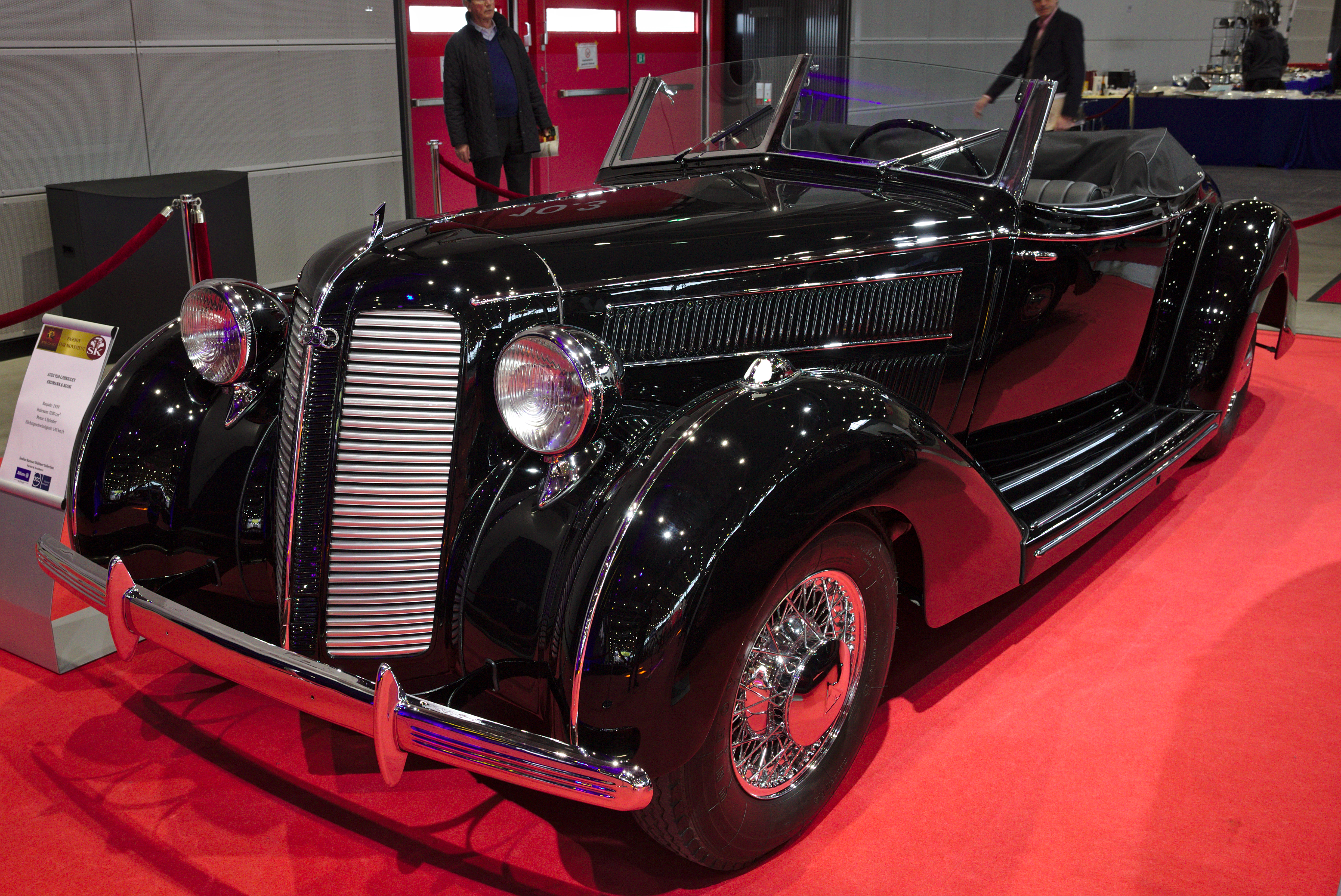 Audi 920 Cabriolet at Retro Classics 2018